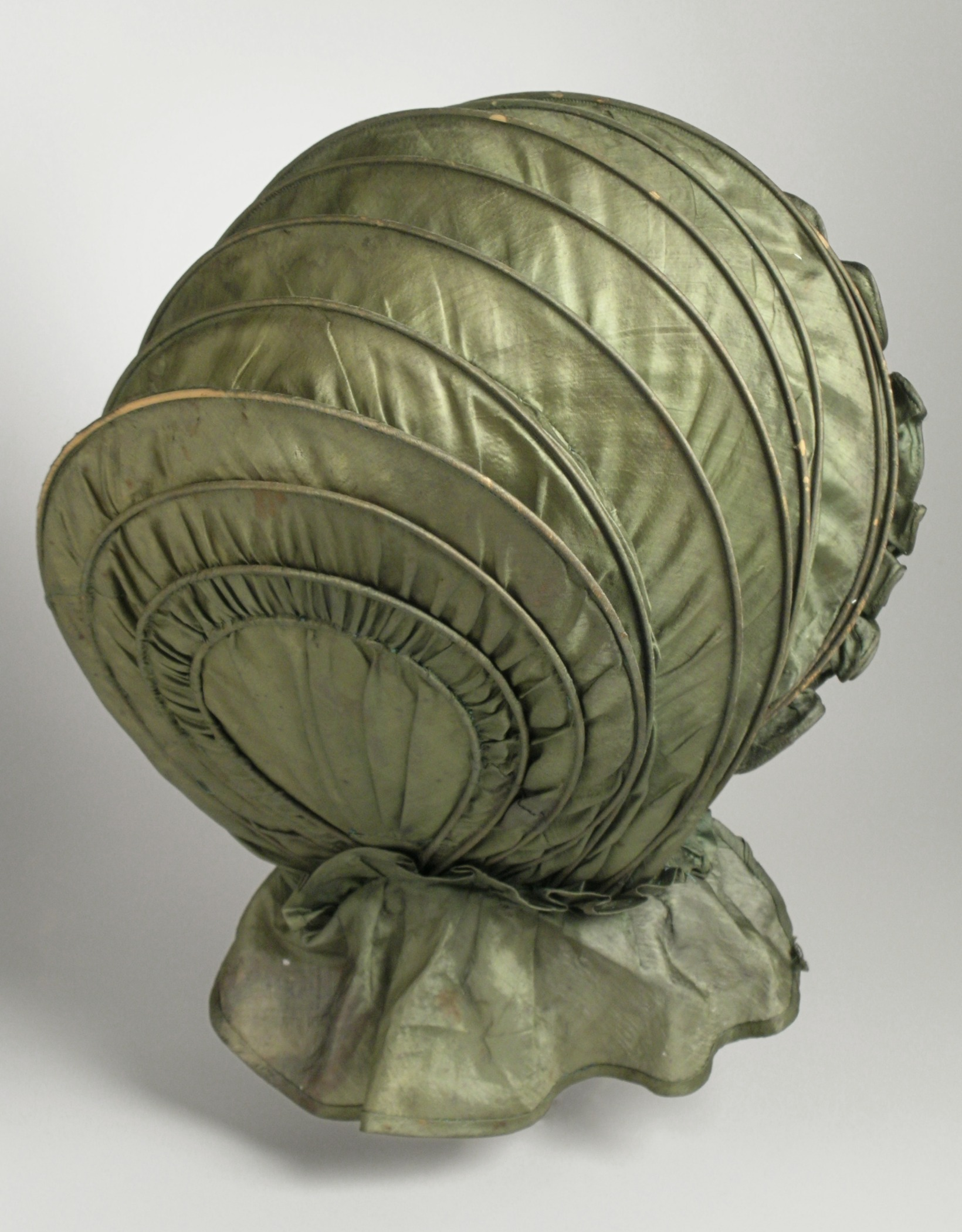 Europe, circa 1825 Costumes; Accessories Silk Gift of Blanche Moss (M.87.93) Costume and Textiles